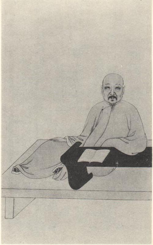 ZHU Yun, politician and scholar of the Qing Dynasty.